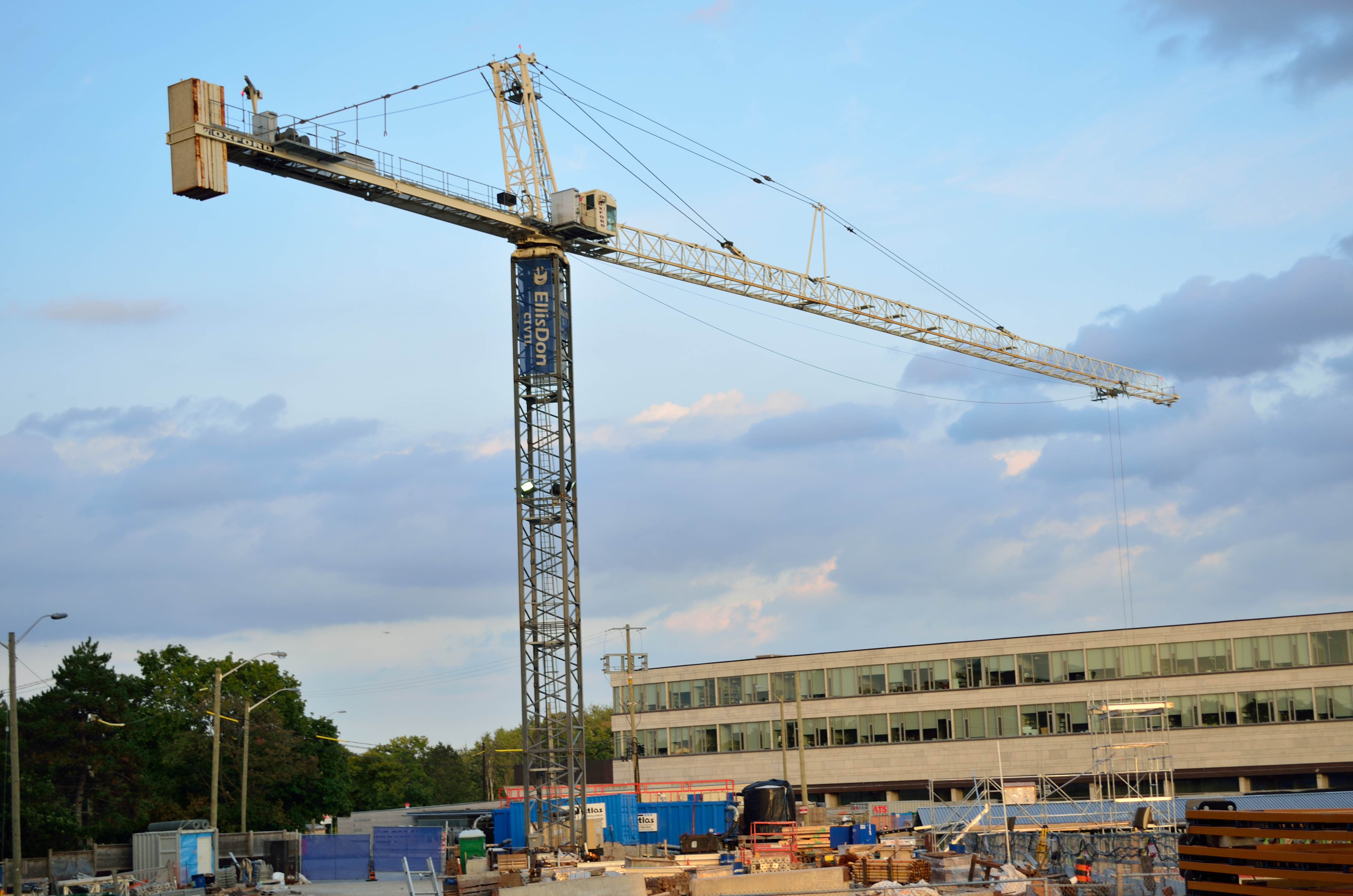 York University TTC Subway Construction.